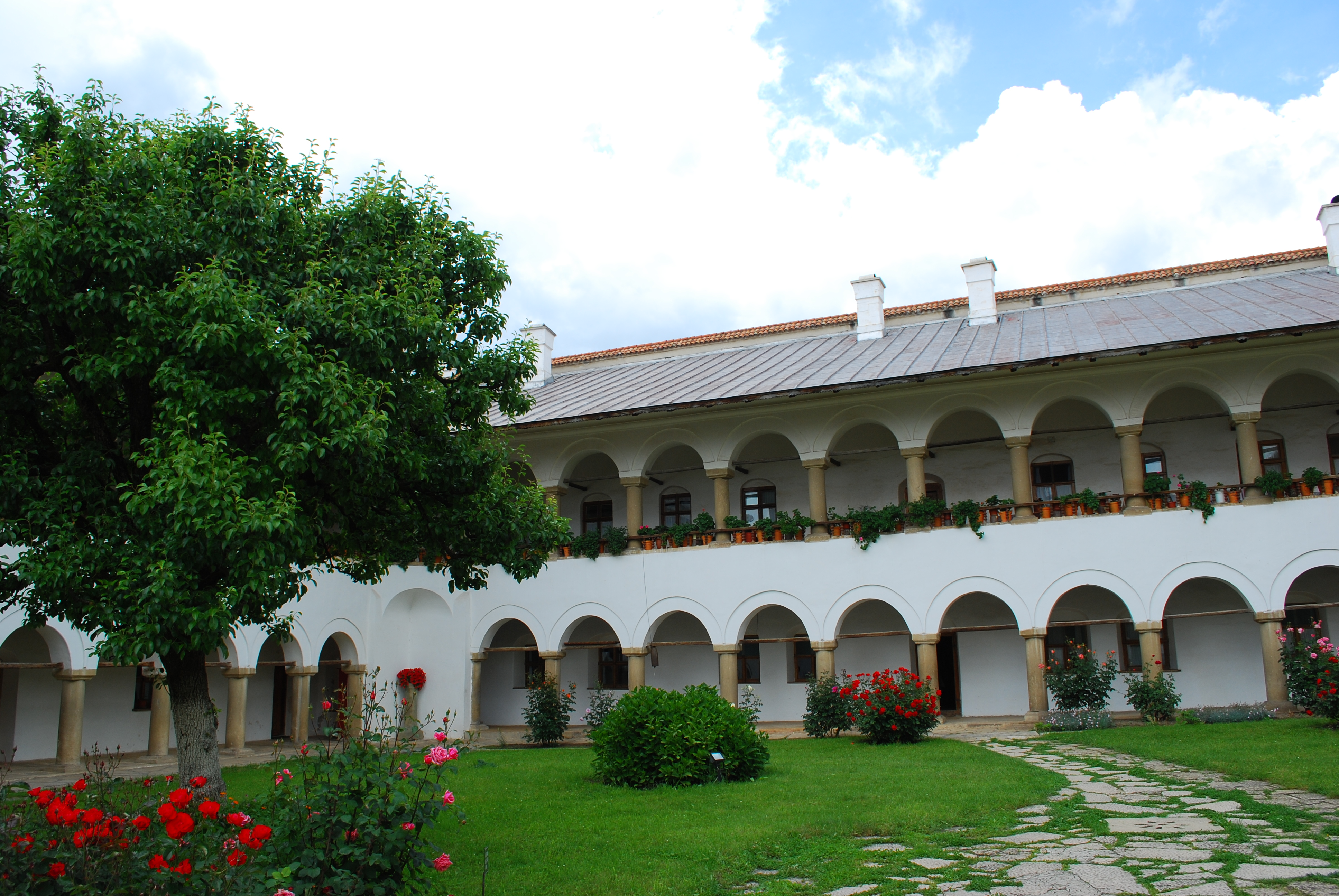 Monastic housing at the Horezu monastery, Vâlcea County, RomaniaRomână: Chilii de la mănăstirea Horezu, judeţul Vâlcea, România 06